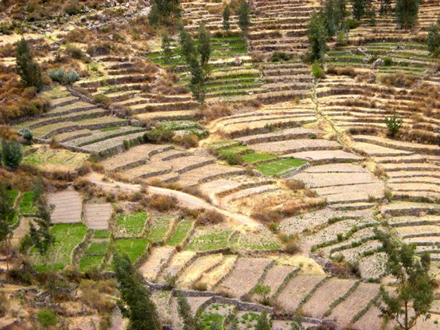 Andenes Cahuana. Agricultural terraces in Peru.